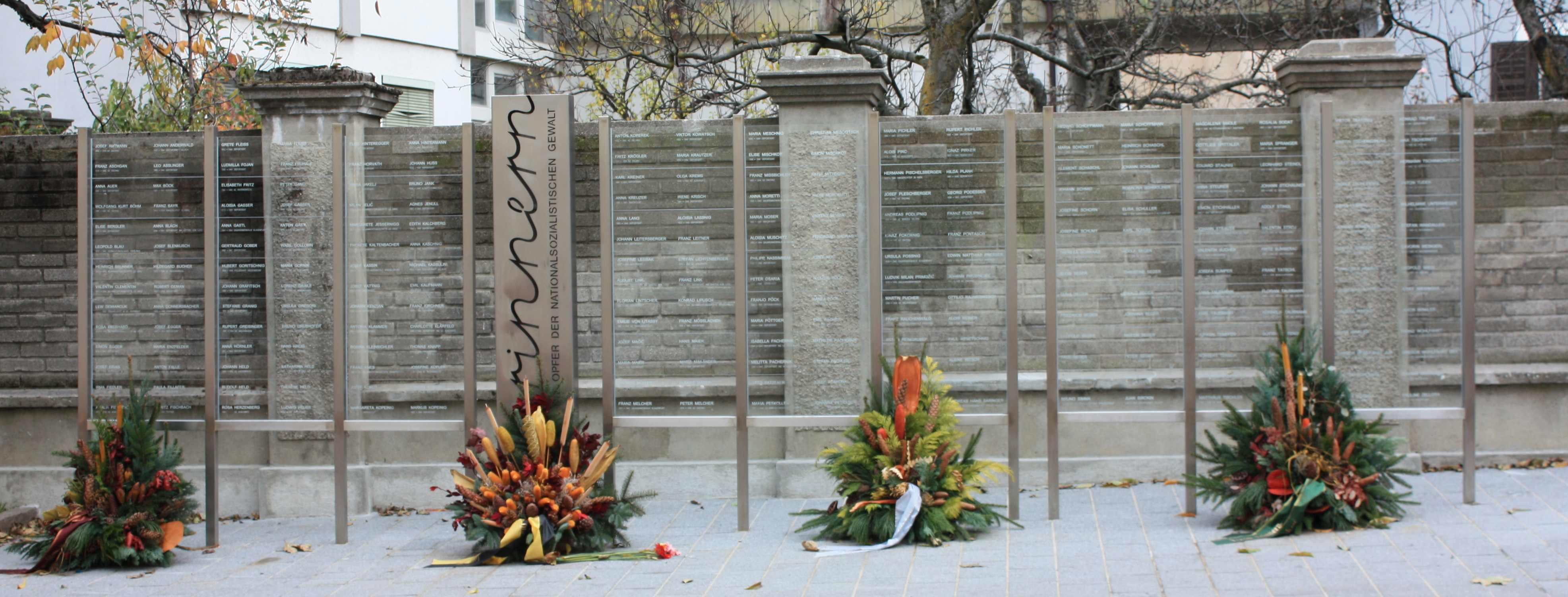 Memorial for the victims of the nationalsocialism Locality: Widmanngasse Community:Villach